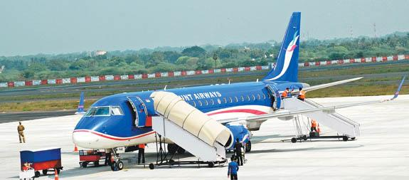 Paramount Airways Embraer E175 at Chennai Airport